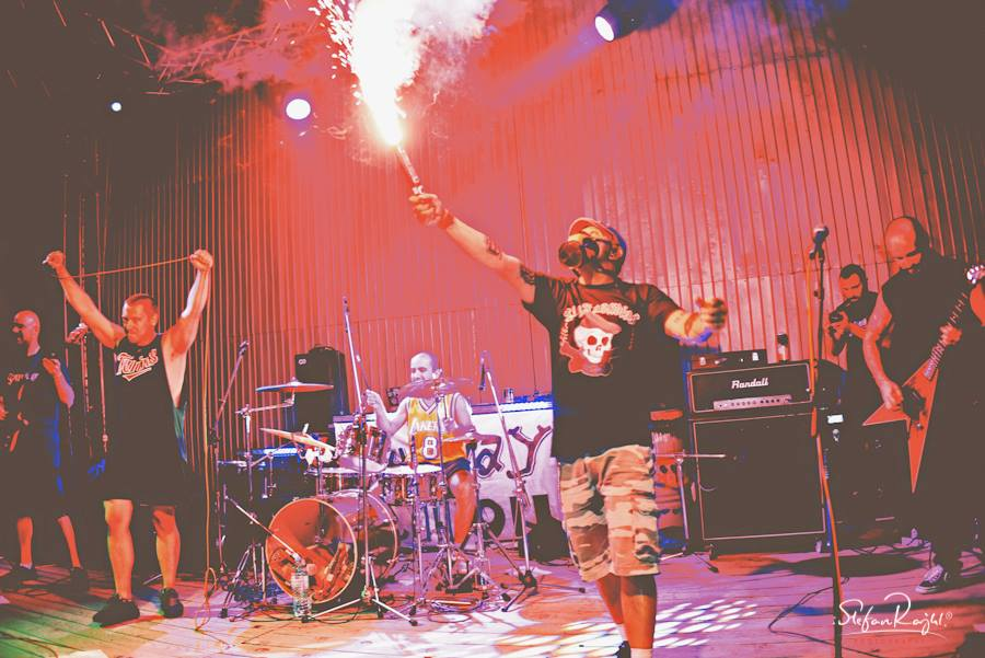 Trendkill band plays on DreamOn festival in Struga, Macedonia